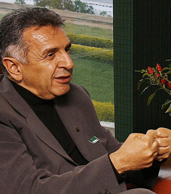 Luis Eduardo Garzon former Mayor of Bogota, Colombia